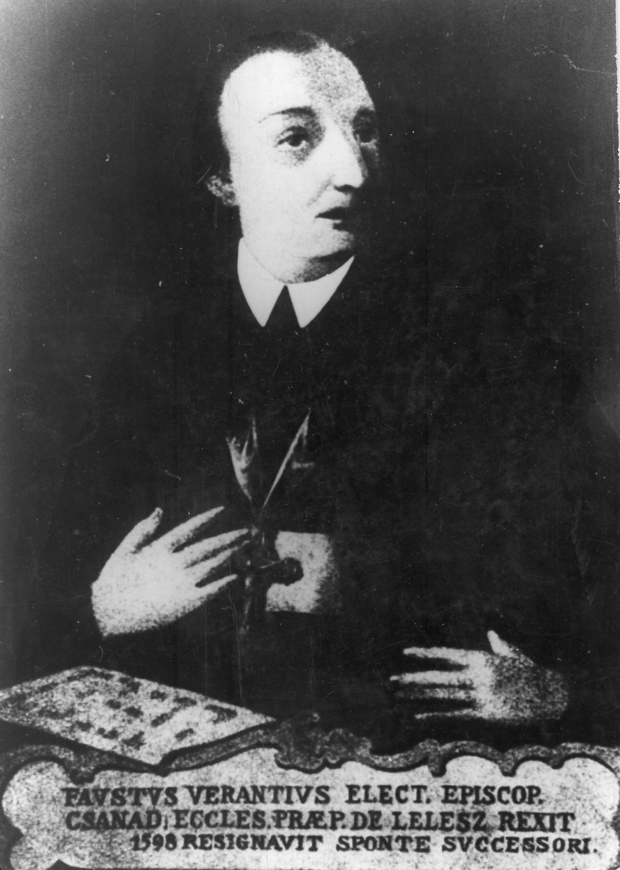 Portrait of Fausto Veranzio, (Šibenik (Sebenico) circa 1551 – Venice, January 17, 1617) taken from a 1920 book